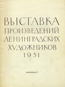 Cover of the catalog of Exhibition of works by Leningrad artists of 1951